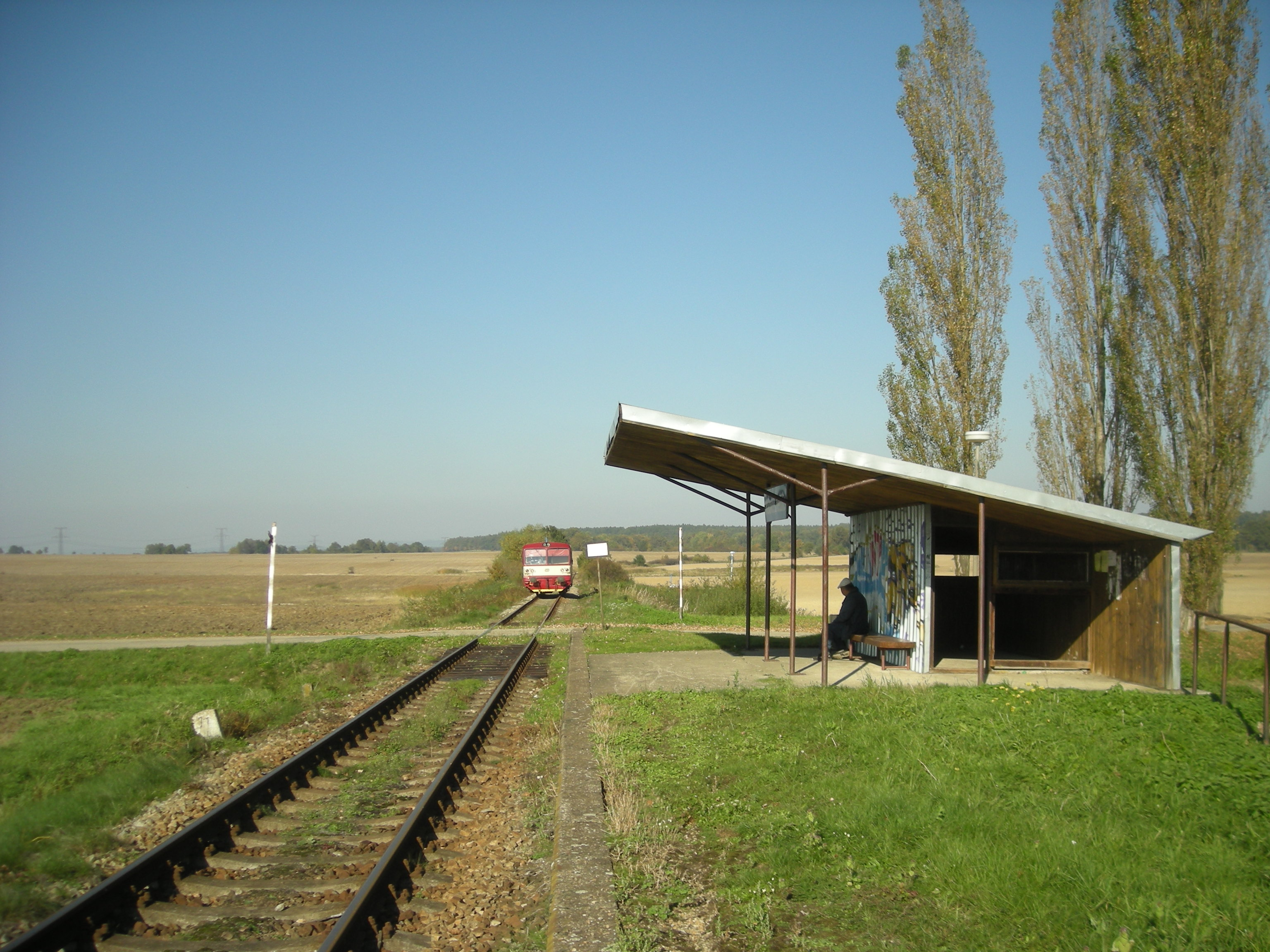 Diesel railcar 810.572-8 arriving at Malovice u Netolic, Czech Republic, on secondary line from Dívčice to Netolice.